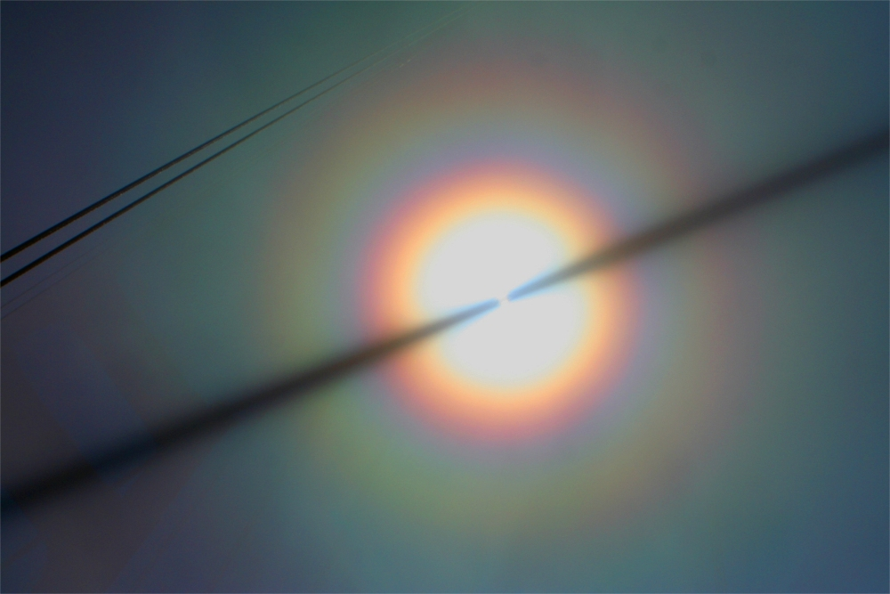 Solar Solar Coronae and Fog Shadow.The South Tower ofGolden Gate Bridge San Francisco is seen in the upper left corner.